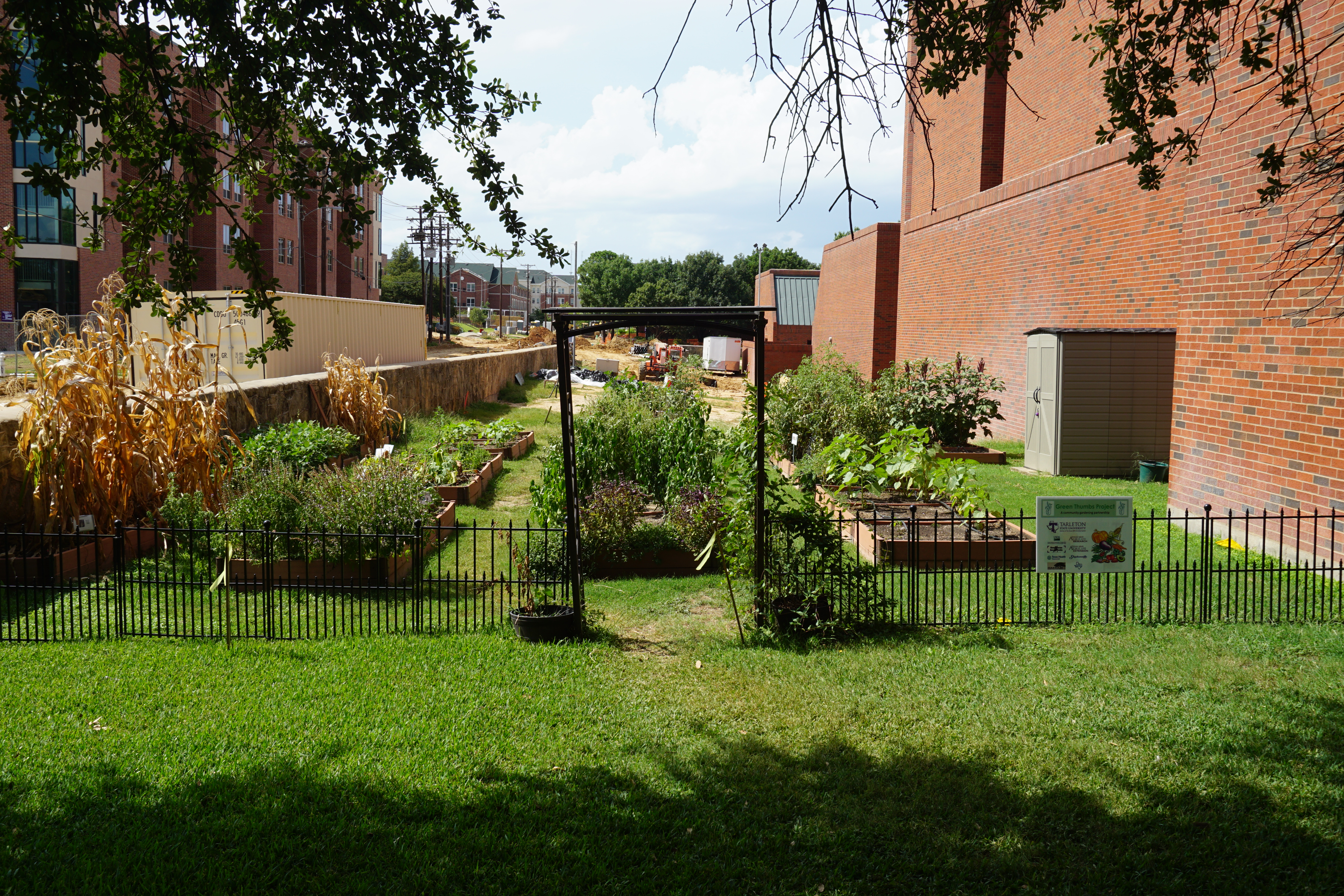 The Sustainable Teaching Garden on the campus of Tarleton State University in Stephenville, Texas (United States).